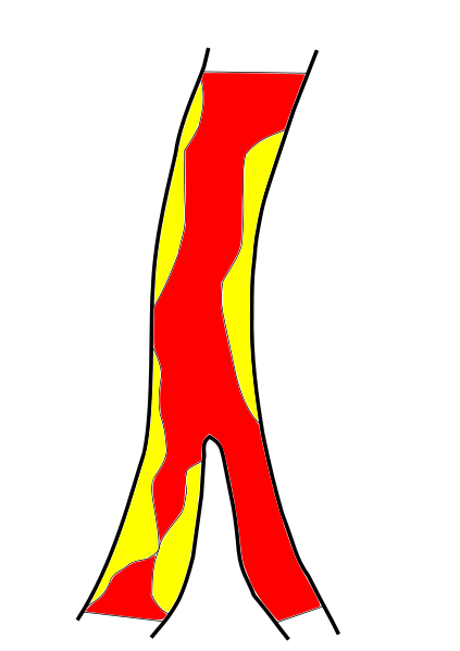 Scheme of atherosclerose